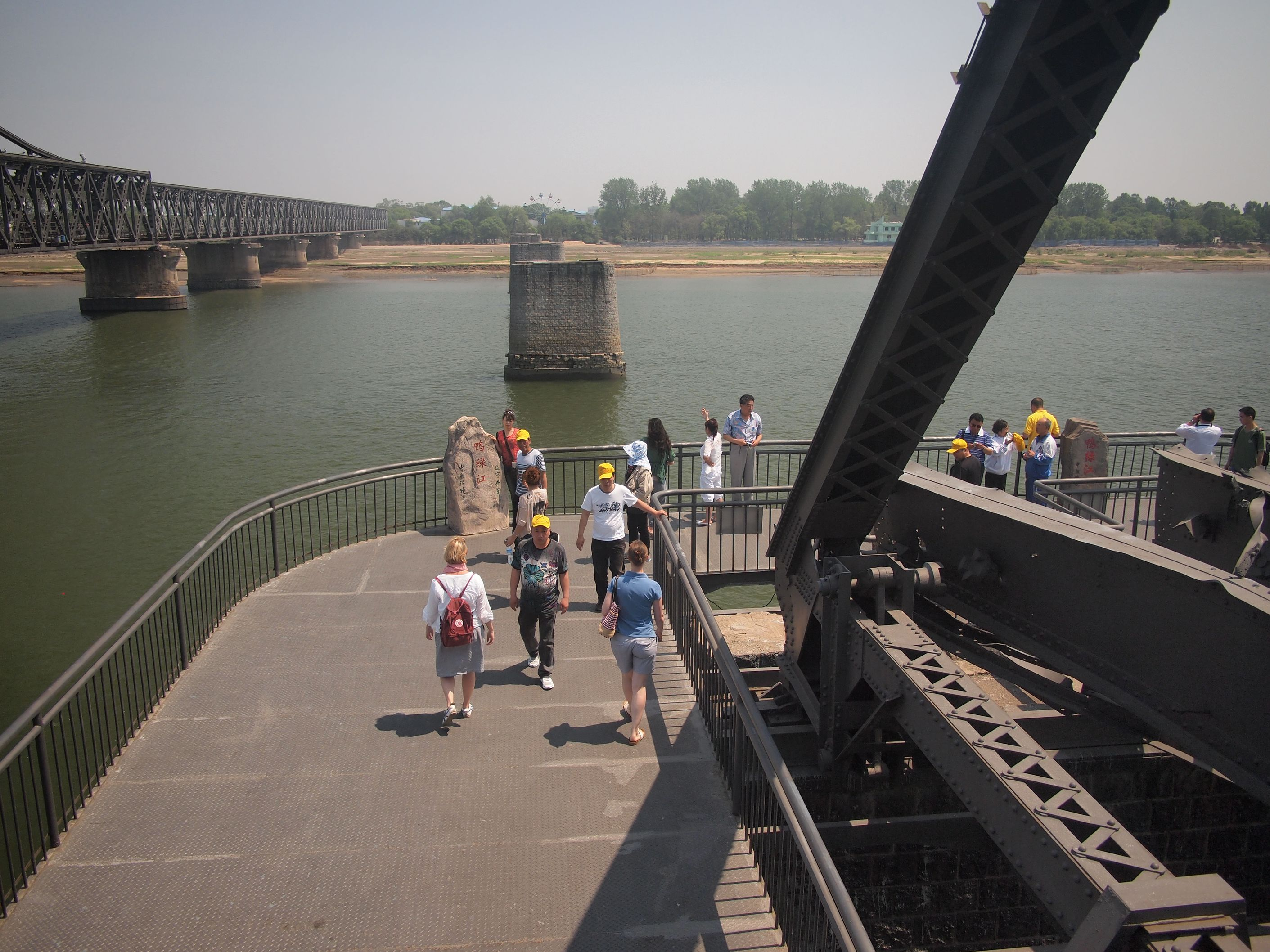 断桥尽头 - The End of Yalu River Broken Bridge - 2011.05